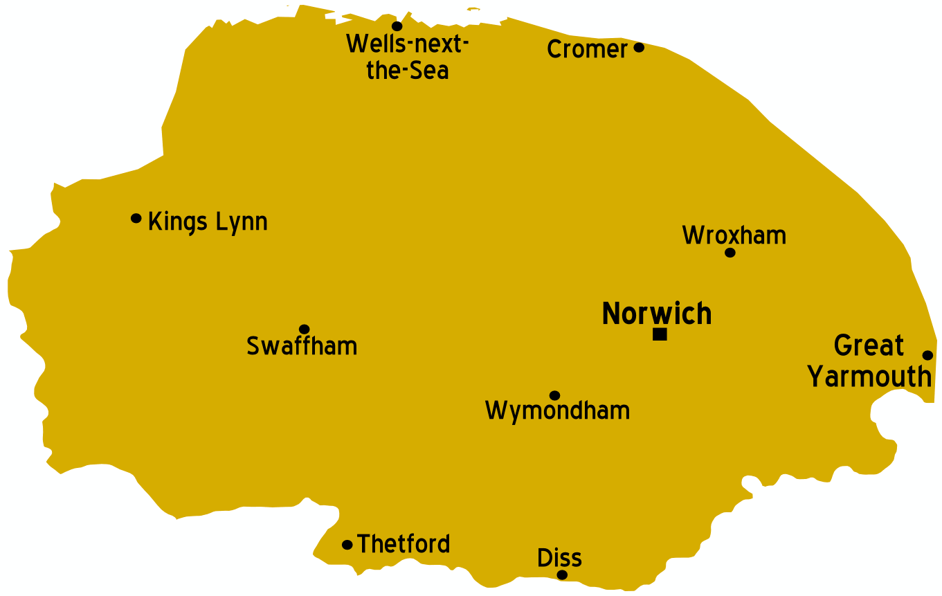 Map of Norfolk Source: :Image:UK map.svg map: England Map of: England